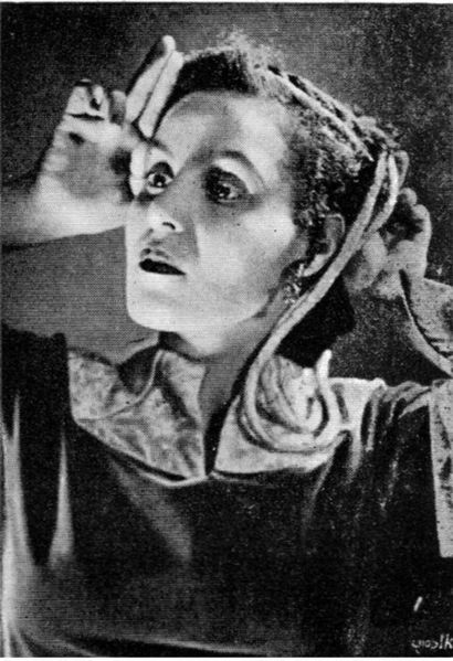 Israeli singer of Jewish-Yemenite origin, Bracha Zefira, in the 1930s.